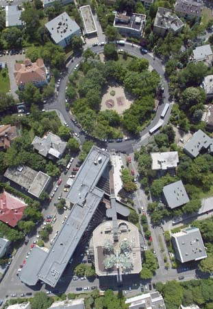 Naphegy tér, Budapest, Hungary, aerial photography